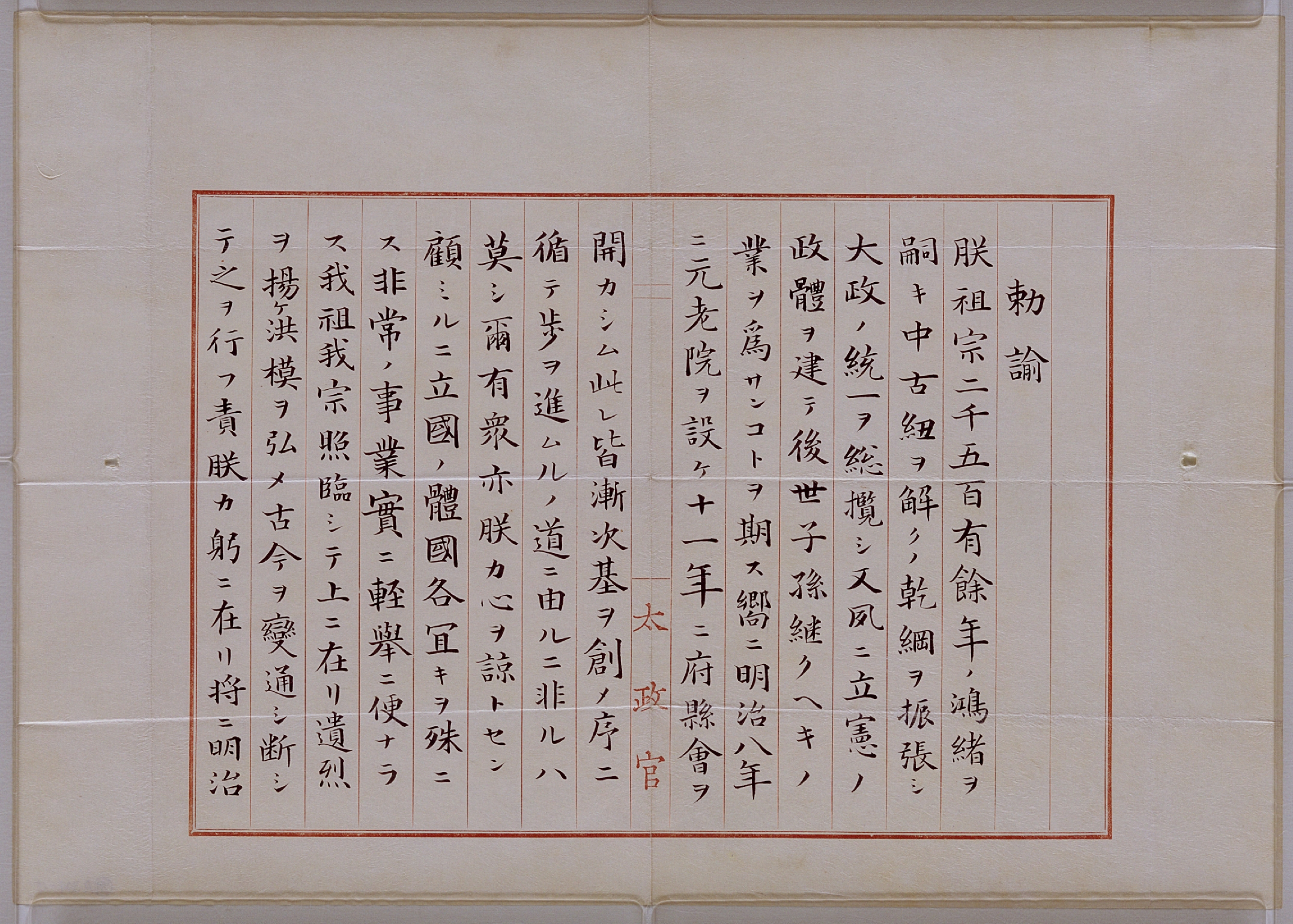 Imperial Rescript on Establishment of the National Diet (page 1)